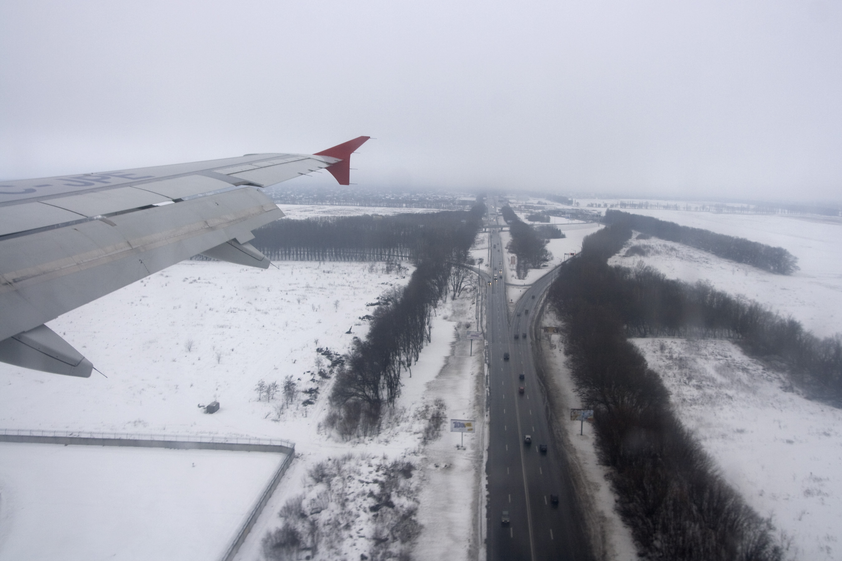 М03 (E40) near Boryspil International Airport